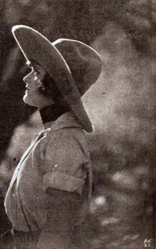 Actress Kathleen Myers, from a promotional advertisement on page 63 of the June 24, 1922 Exhibitors Herald.